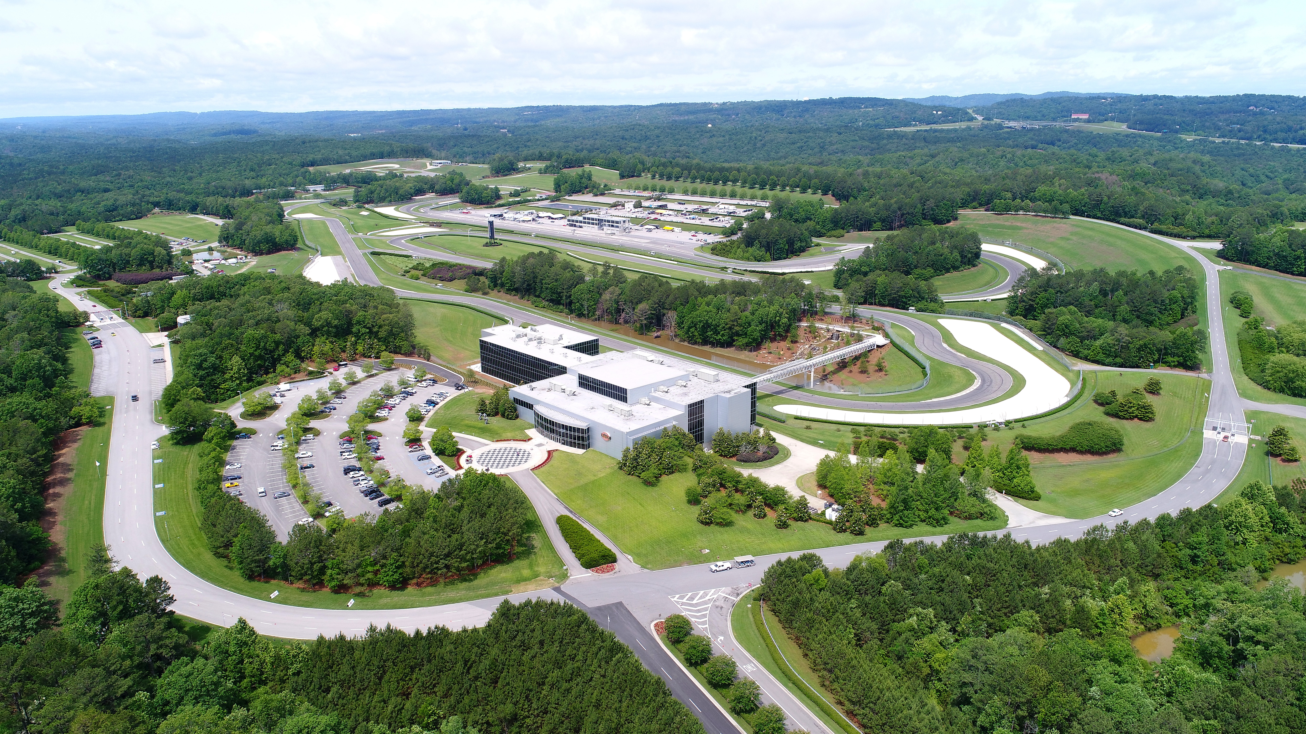 Barber Motorsports Park contains the Barber Vintage Motorsports Museum, a 2.38-mile road-course (track), the Barber Proving Grounds, and additional buildings. It has water features, pedestrian bridges, and is surrounded by untouched forest.